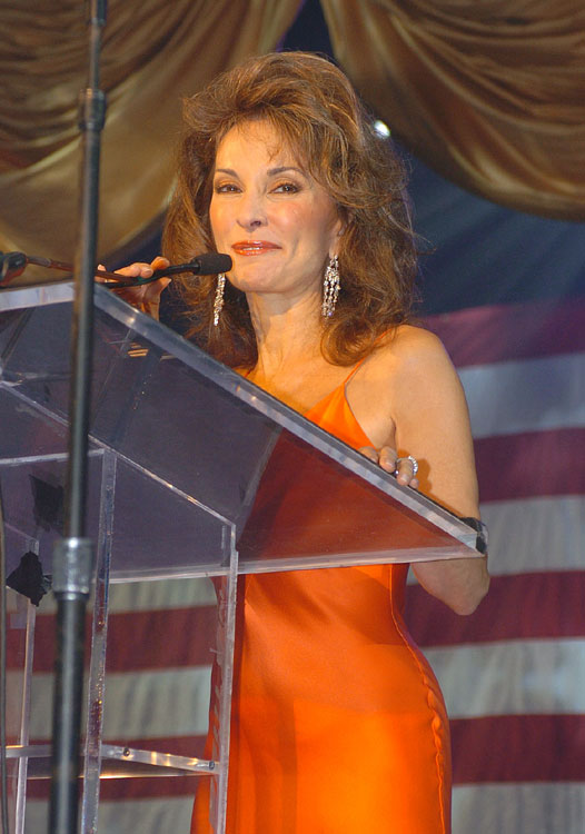 Soap opera star Susan Lucci helps host the Army's 230th Army birthday celebration "Call to Duty" in Washington, D.C., June 18. U.S. Army photo by Staff Sgt. Carmen Burgess.